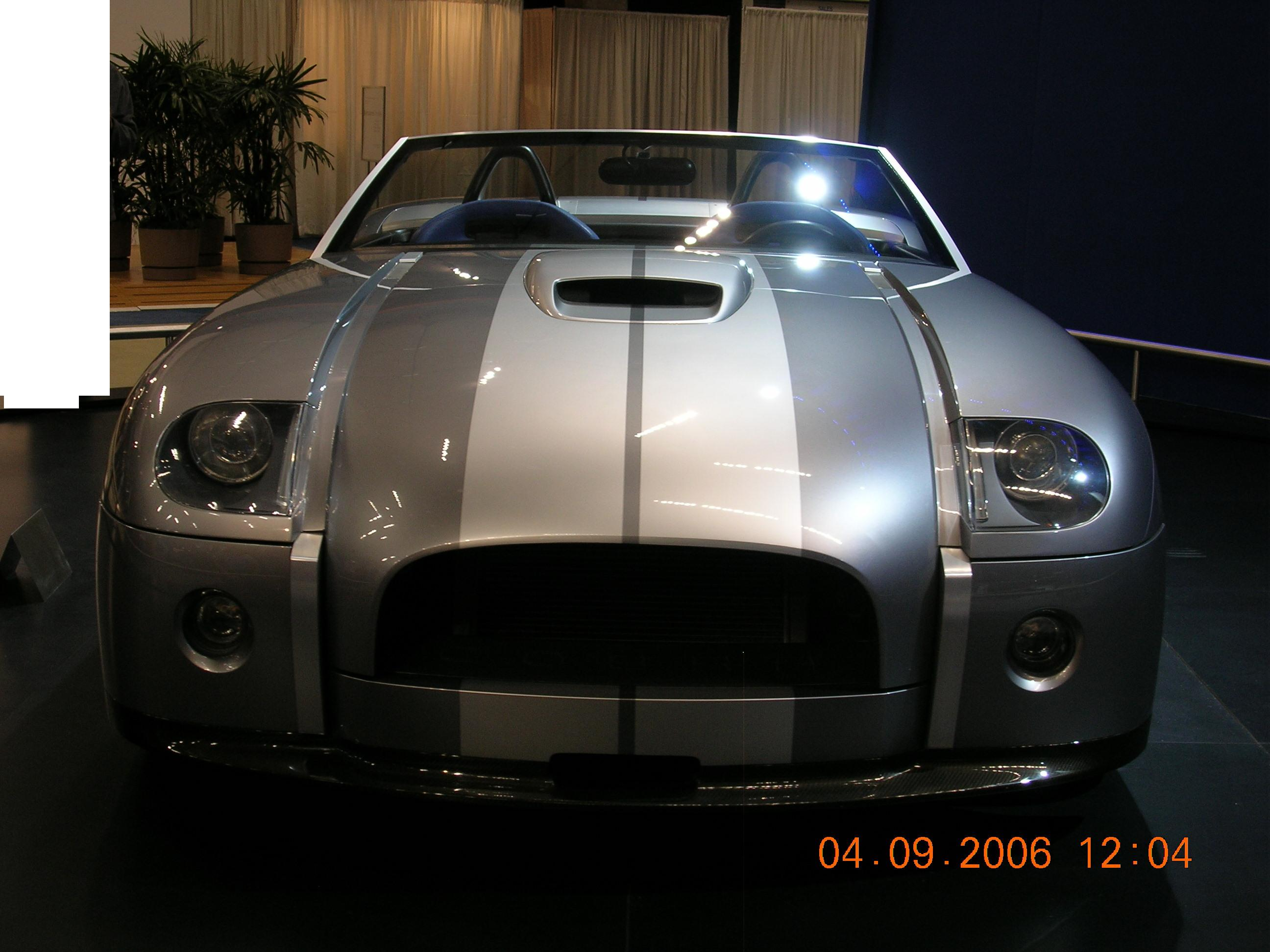 Picture taken in Vancouver Auto Show 2006. Only edit of picture was to remove person in picture.